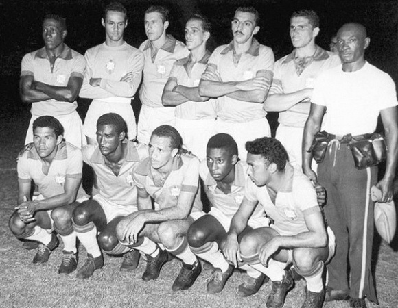 Brazil national football team (Brazil - Paraguay, Buenos Aires, Copa Averica 1959)